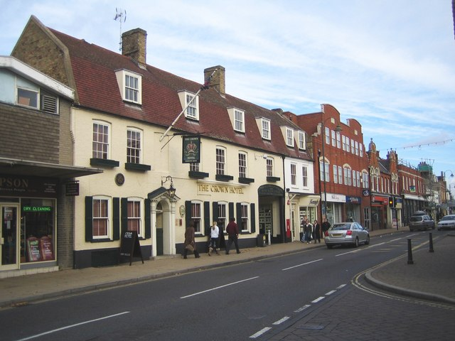 Biggleswade: The Crown Hotel The Crown's history as a coaching inn on the old A1 road through Biggleswade is evidenced by the large and high gate at the far end where the old sign advertising livery and bait for sale has been retained. However the Crown's main claim to fame is that it was the place where the Great Fire of Biggleswade began on 16 June 1785. It was apparently started due to the carelessness of a servant who dumped ashes from the kitchen fire in the hotel yard near some dry straw. The ensuing inferno destroyed nearly a third of Biggleswade. The loss was estimated at £22,500, a fortune at the time. The Crown was however rebuilt and opened again in 1793. The hotel's website ironically offers a warm welcome...